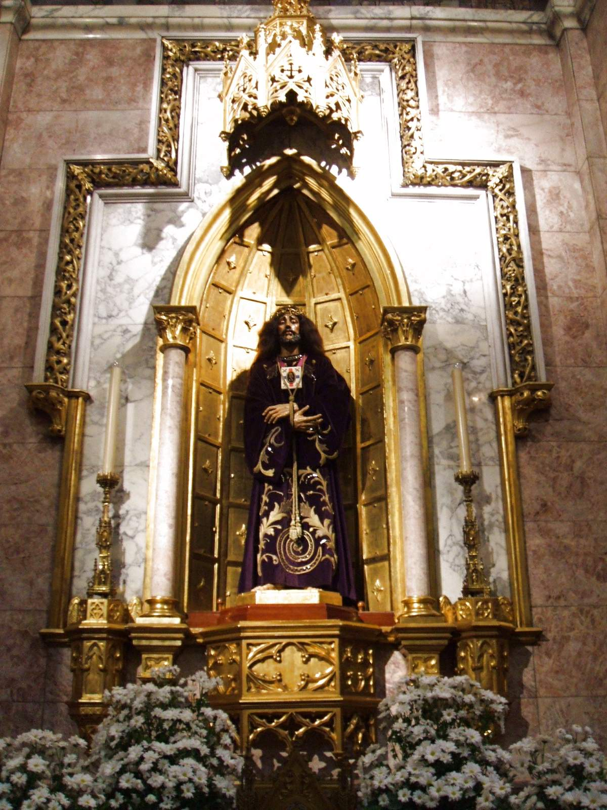 Altar de Jesús Nazareno, en la iglesia de San Francisco de Asís de Bilbao (País Vasco, España)